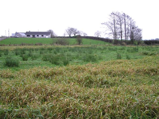 Drummaul Townland Looking east from the Crea Road